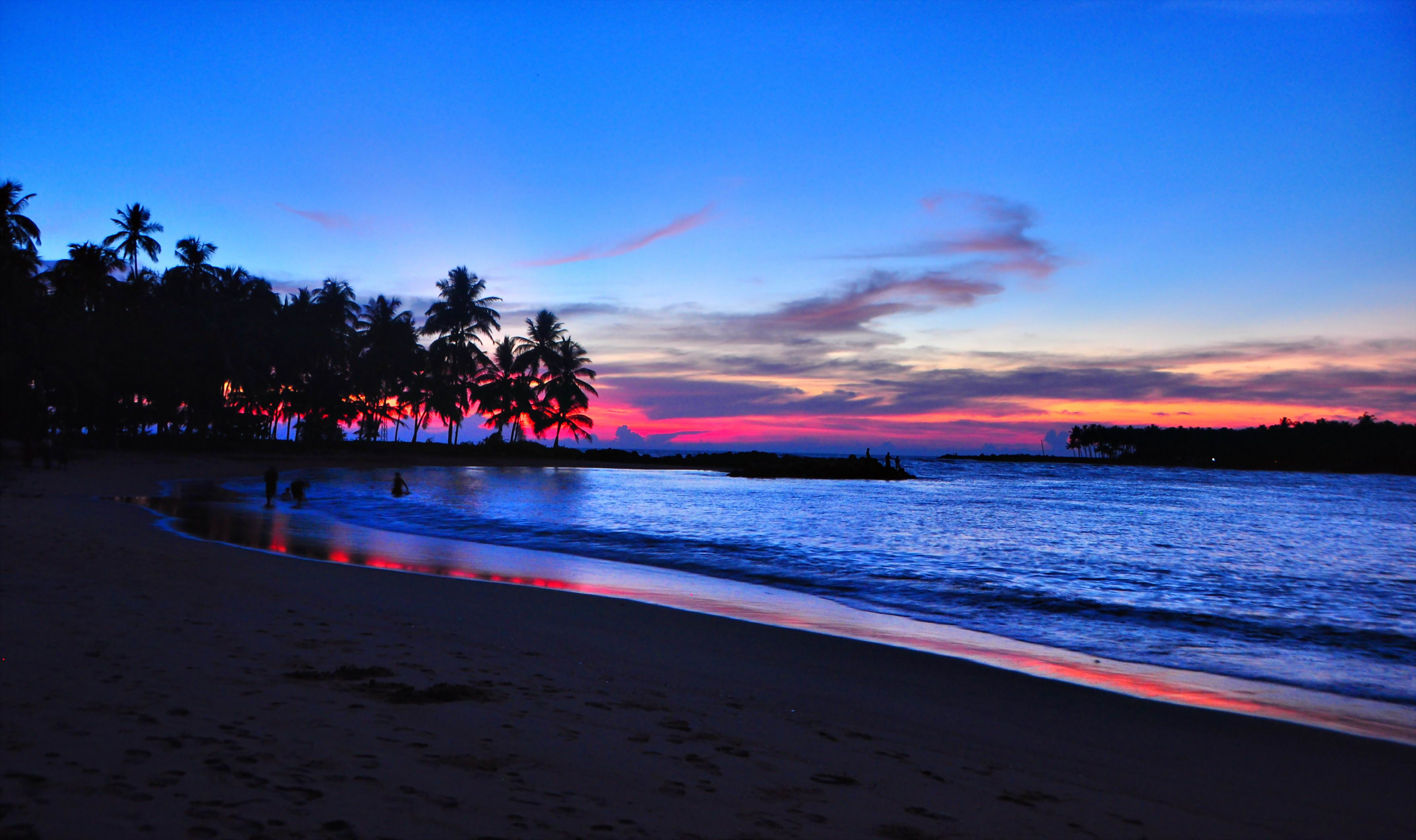 Beach, facing The Arabian Sea @ Chettuva, Thrissur, Kerala., India